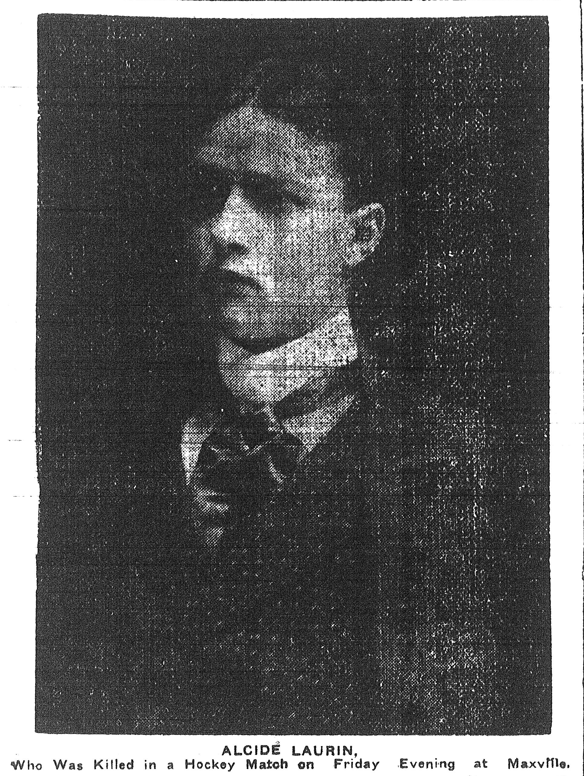 Portrait of hockey player Alcide Laurin who was killed in a 1905 game by an opposing player.